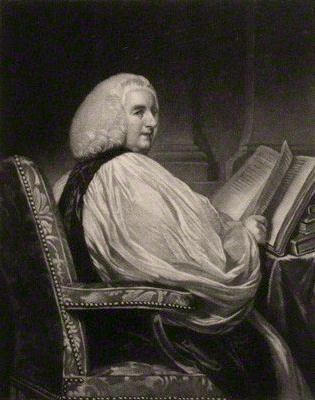 Portrait of Richard Robinson, 1st Baron Rokeby (1708-1794)